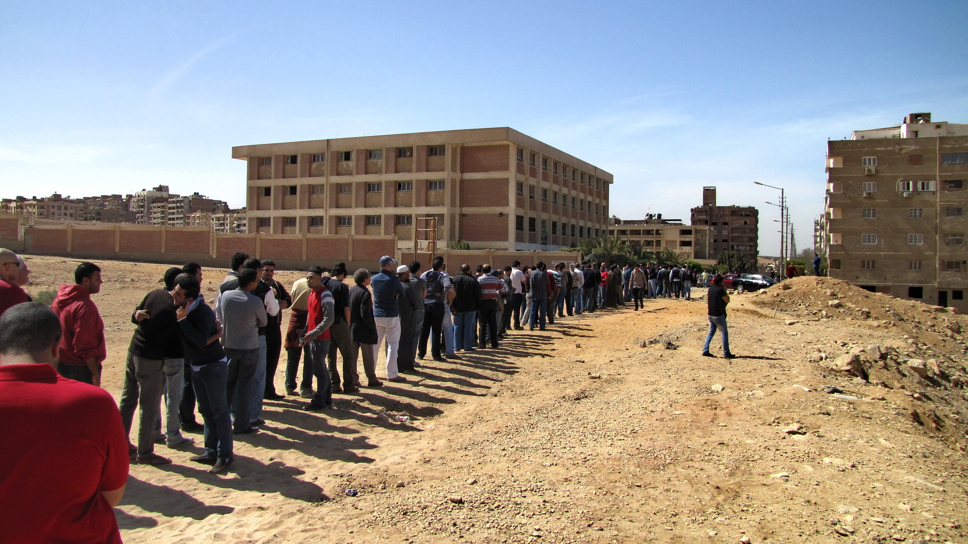 The men's line during the 2011 constitutional referendum in Egypt in the relatively up-scale Mokattam hill, a neighborhood of Cairo. The hill is not fully developed yet, and the queue was so long it extended from the polling place within the built-up area out into the desert. Opposite the men's queue, well within the built-up area was another queue for women.